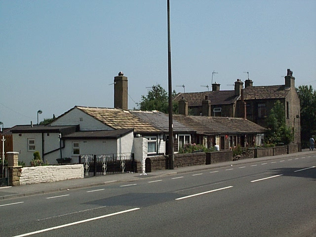 Single storey cottages on Southfield Lane. Tiny houses such as these are still quite a common sight around Little Horton and Great Horton. This row of cottages is on the A6177 Bradford outer ring road, a notorious example of a duplicate A road number (there is an entirely unrelated imposter A6177 in Blackburn).